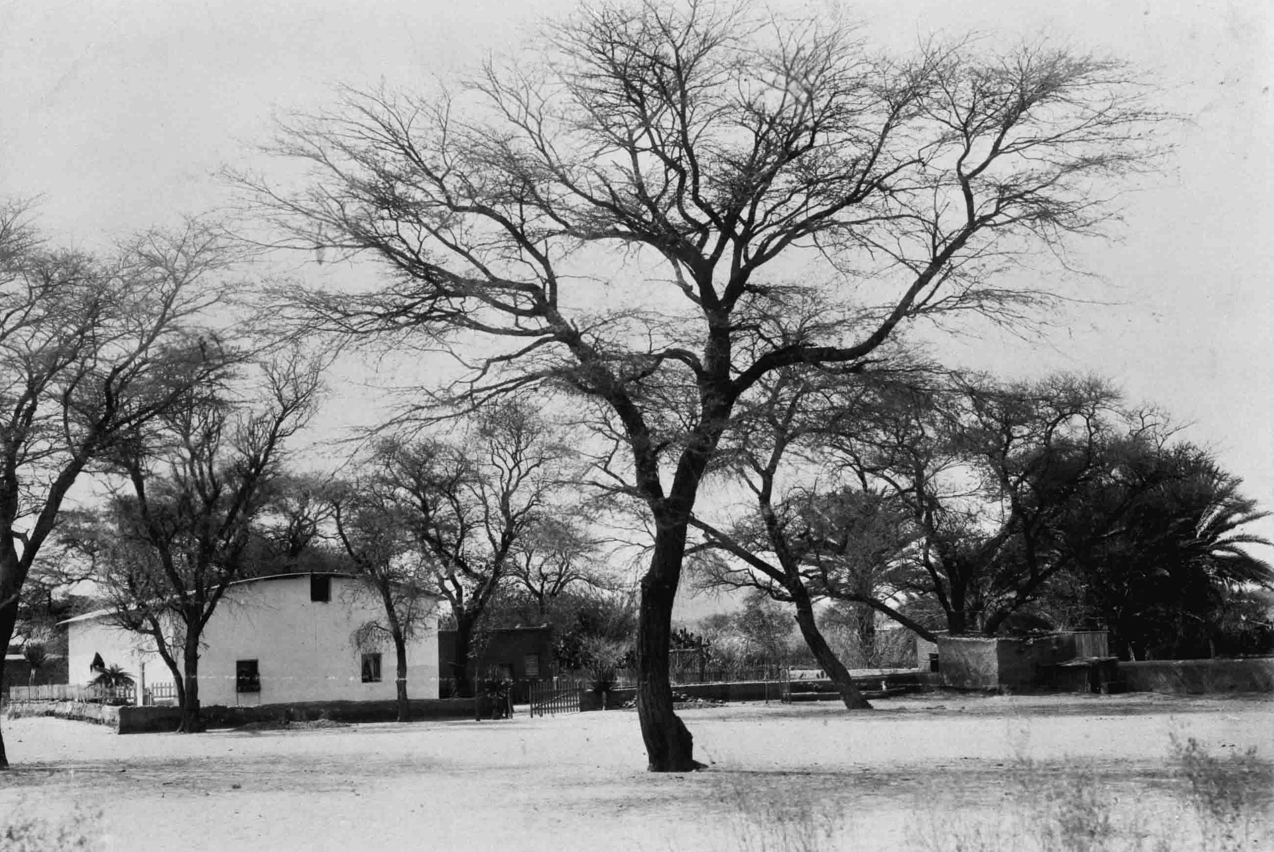 mission house in Omaruru, Namibia; build around 1890